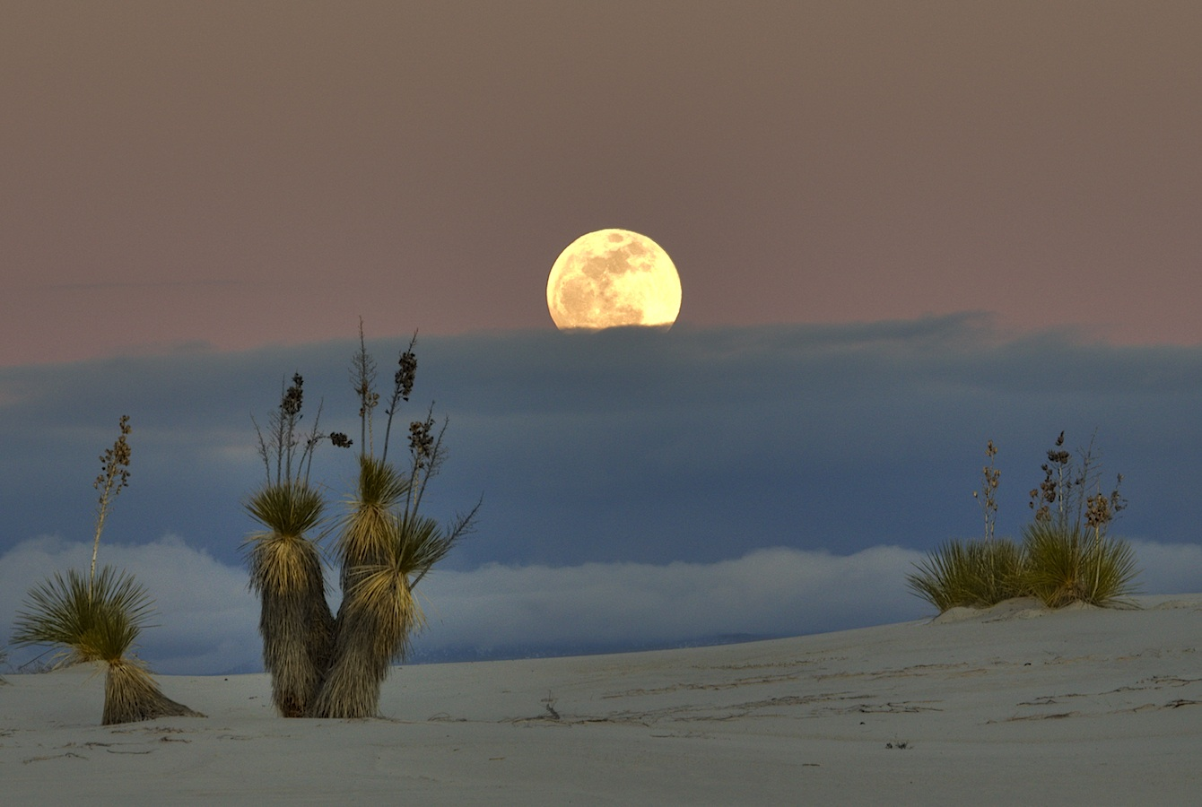 White Sands National Park, New Mexico